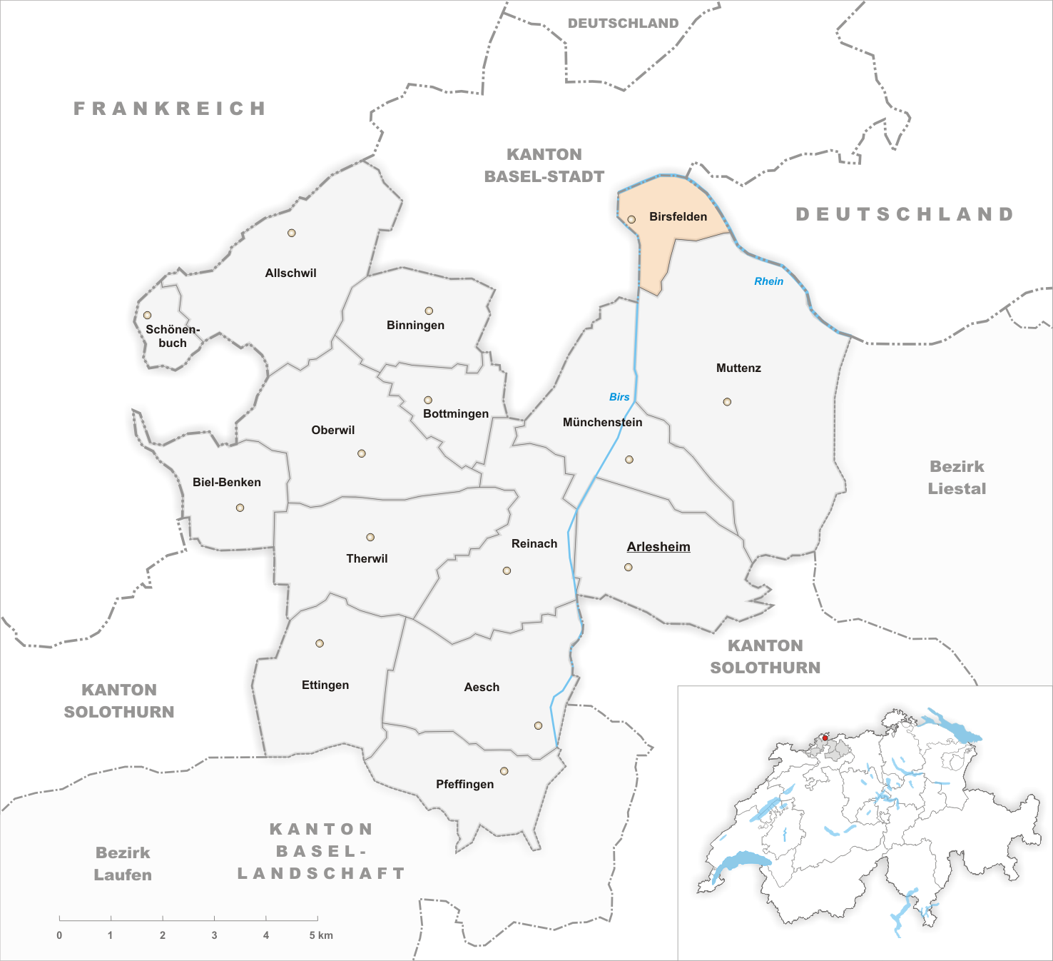 Municipality Birsfelden